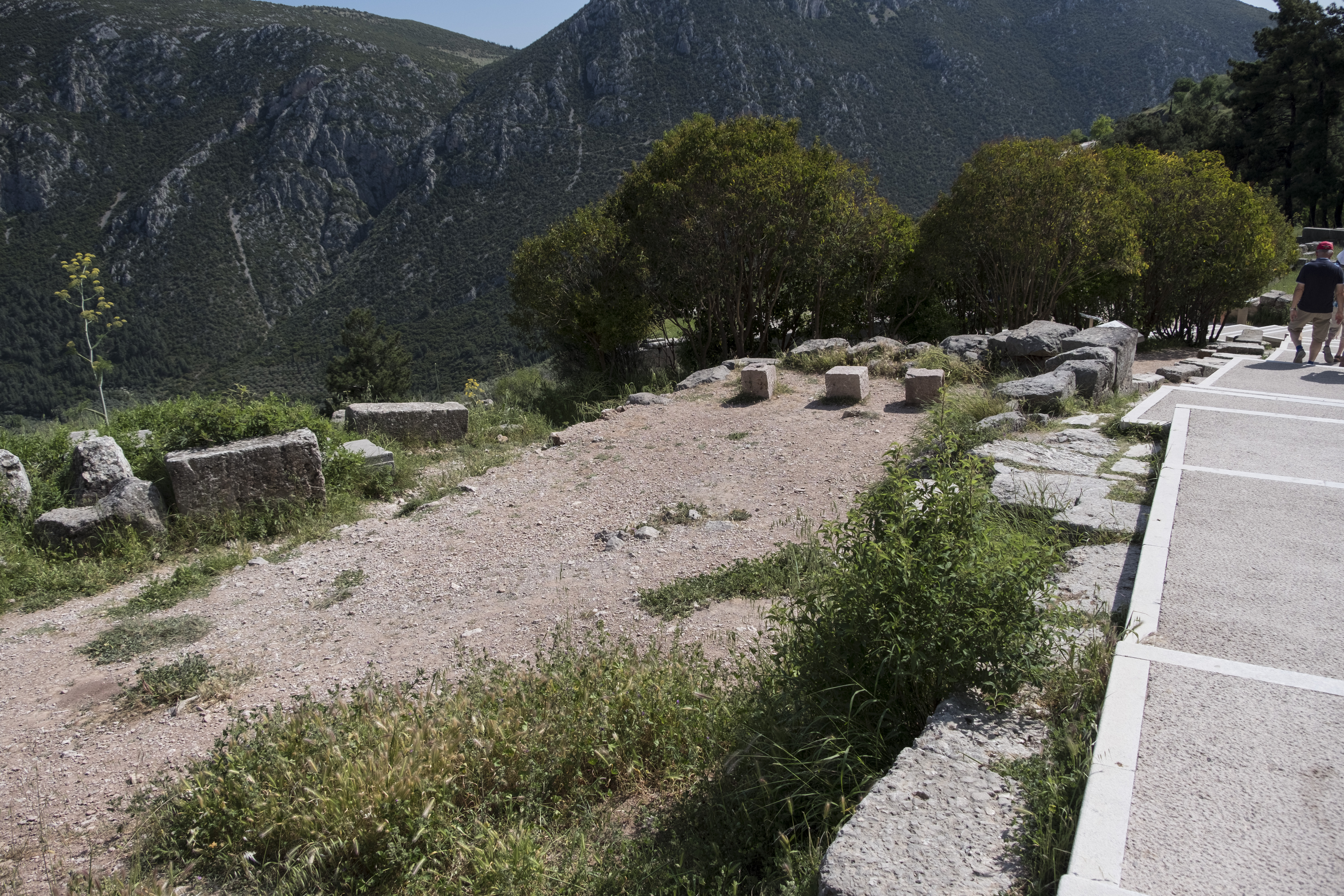 Treasury of Cnidus